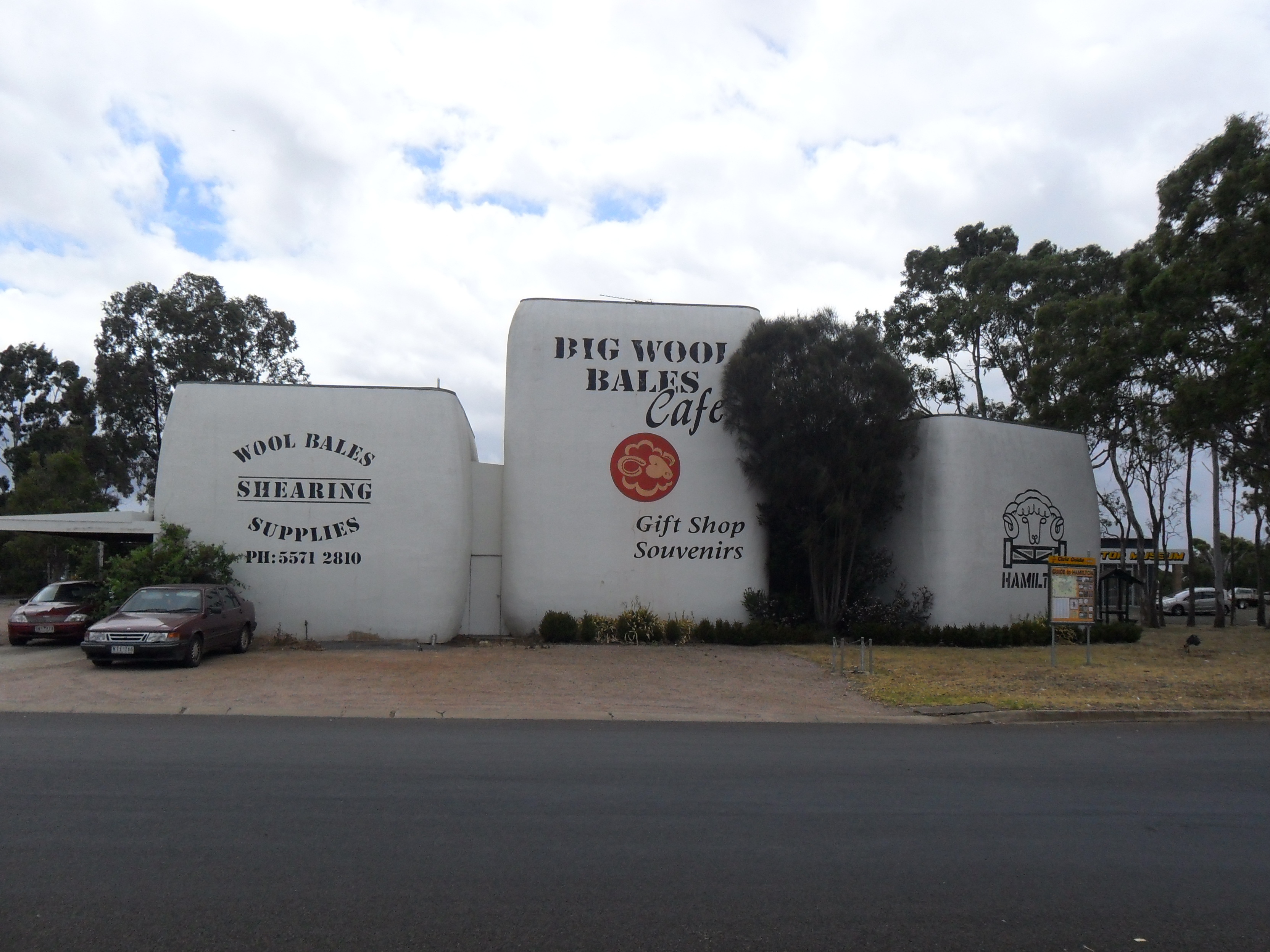 A former attraction in the Victorian town of Hamilton, the Big Woolbales (2012)